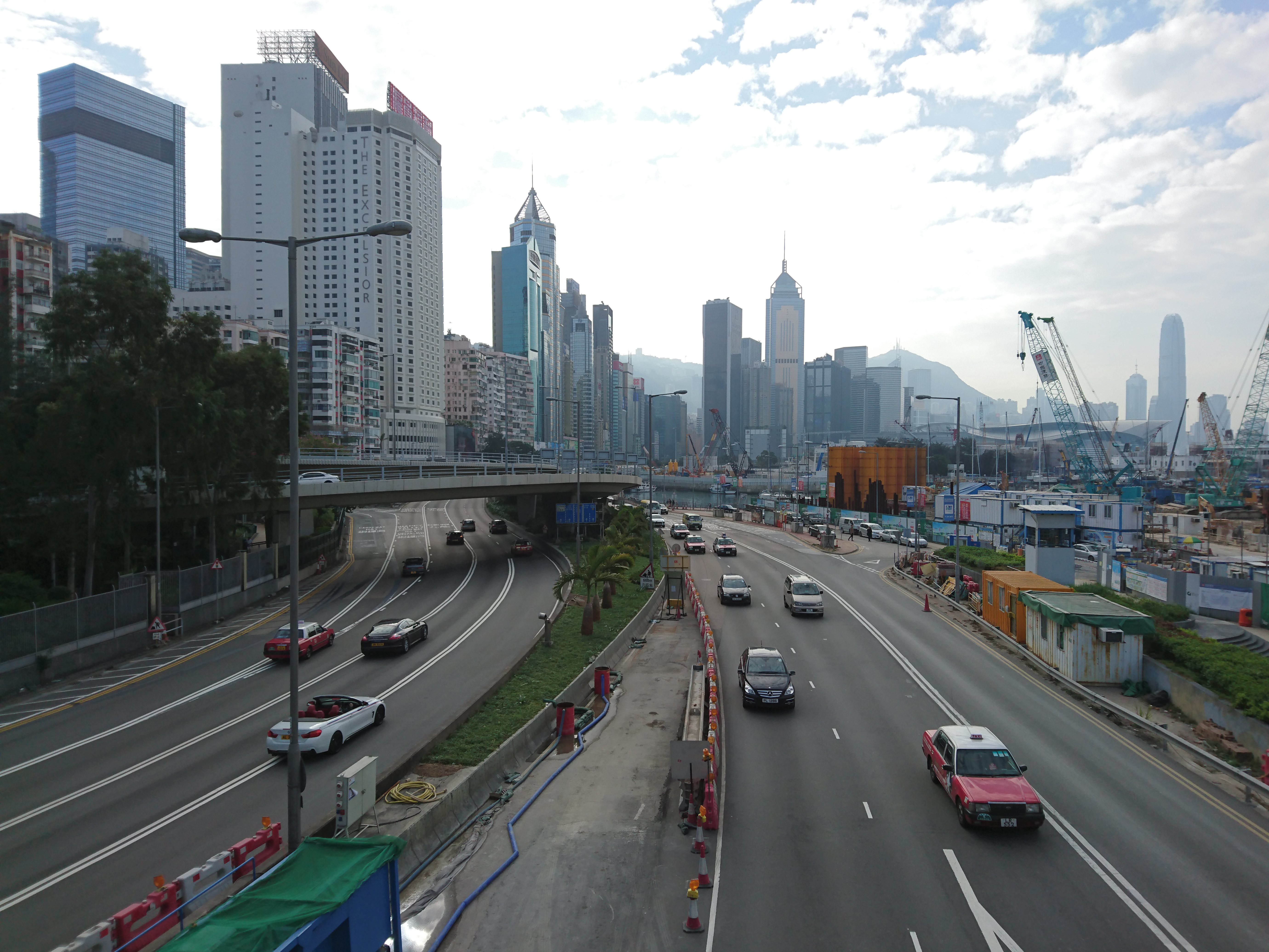 Victoria Park Road towards Gloucester Road